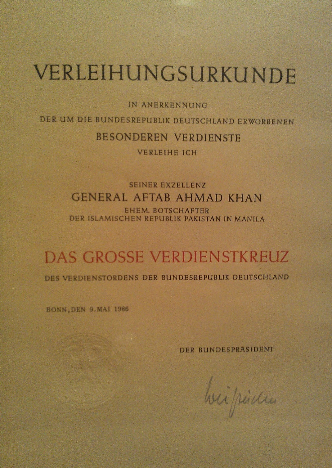 Photograph of the Citation given to General Aftab Ahmad Khan by the German President